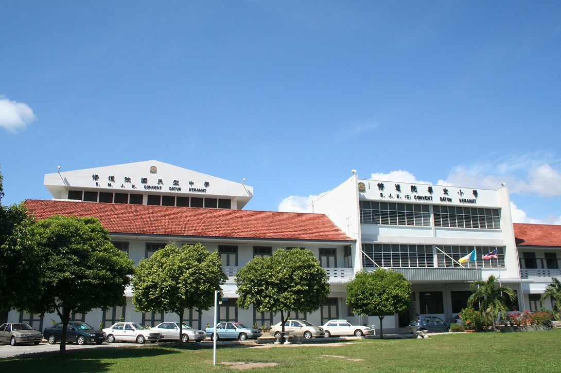 Front view of SMJK Convent Datuk Keramat secondary school from Datuk Keramat Road in Penang. The name of school is on top of the school hall on the building on the left. The primary school SJK (C) Convent Datuk Keramat is also visible as the building on the right